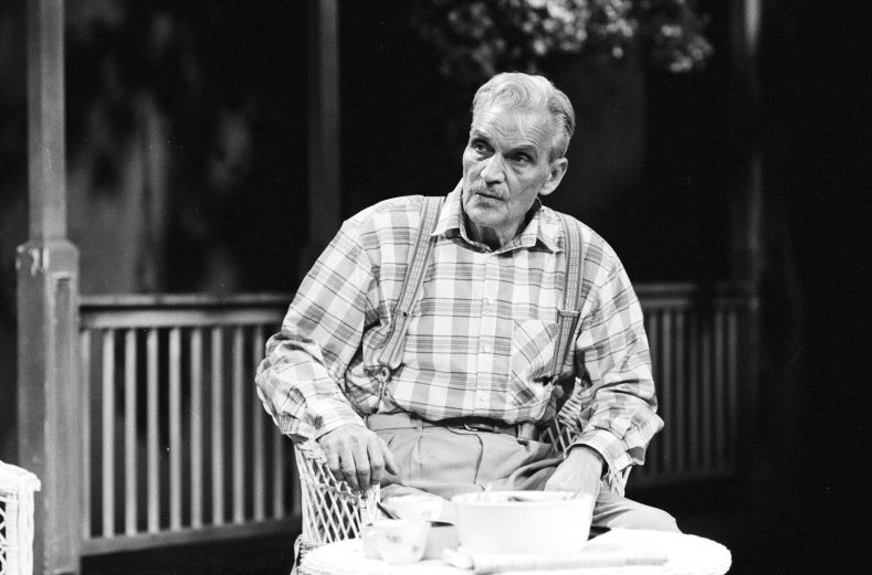 Rolf Søder (1918-1998), Norwegian actor. Nationaltheatret 1987